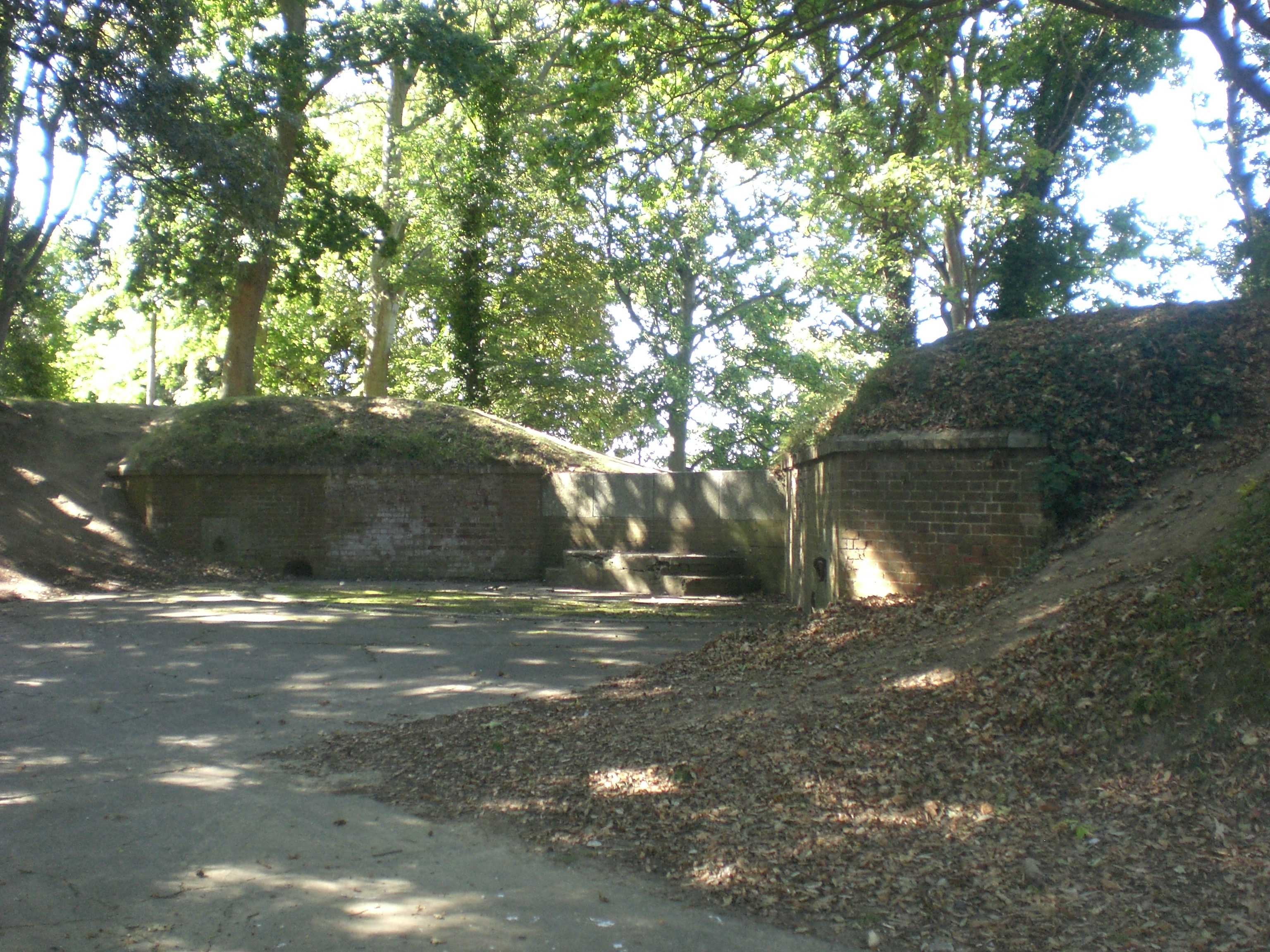 Gun position for 11-inch Rifled Muzzle Loading (RML) gun. Part of Puckpool Battery located on the coast in Puckpool close to the town of Ryde on the Isle of Wight.